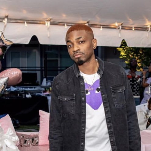 Shizzi at Davido's daughter's wedding in Atlanta GA, 2018